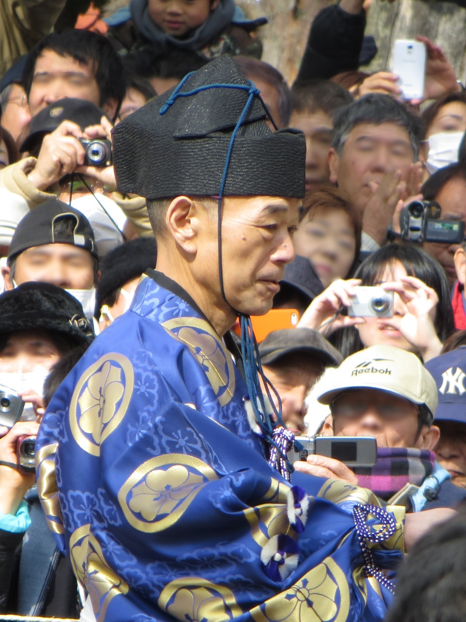 39th Shikimori Inosuke (Gyōji) in Sumiyoshi taisha.